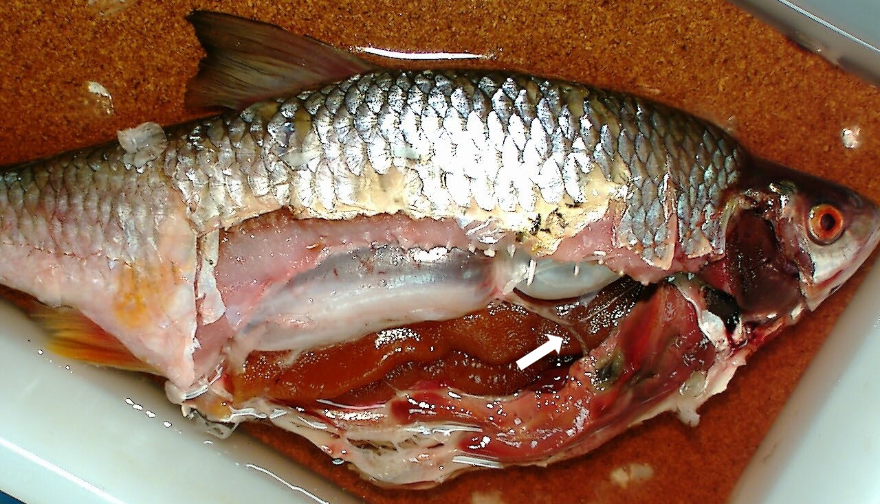 The airduct from the swim bladder to the esophagus in a physostome fish, the common rudd. Modified from the file Scardinius Situs unlabelled by Cymothoa exigua